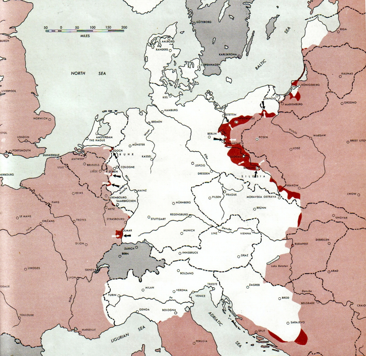 Map of the front against Germany: This map is taken from the source "Atlas of the World Battle Fronts in Semimonthly Phases to August 15th 1945: Supplement to The Biennial report of The Chief of Staff of the United States Army July 1, 1943 to June 30 1945 To the Secretary of War". (See Cover, Forward and Map details)